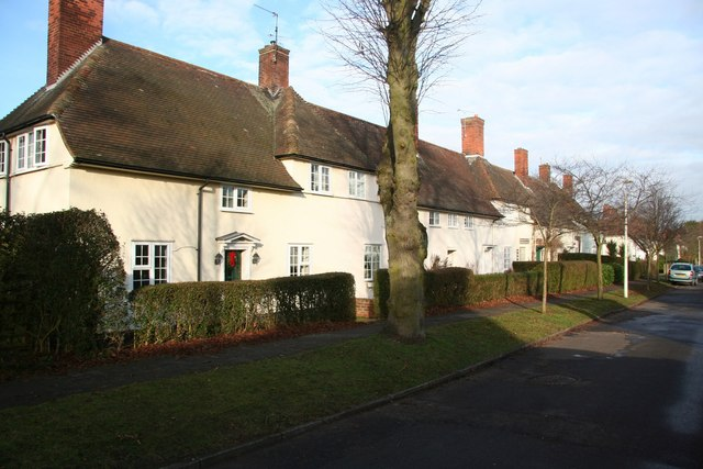 Homes for heroes Houses on Hartsholme Drive in Swanpool Garden Suburb conservation area. Colonel J.S.Ruston, a director of Lincoln engineering firm Ruston and Hornsby built the garden suburb in 1919 with wide avenues and spacious accommodation. His original plan for a 25 acre self-contained community was never realised and only 113 houses were built.